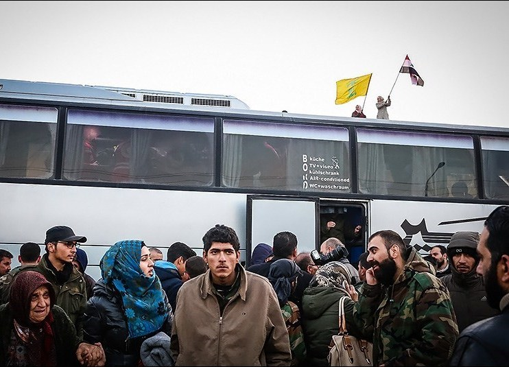 Arrival of residents of Al-Fu'ah and Kfrya to Aleppo - December 2016